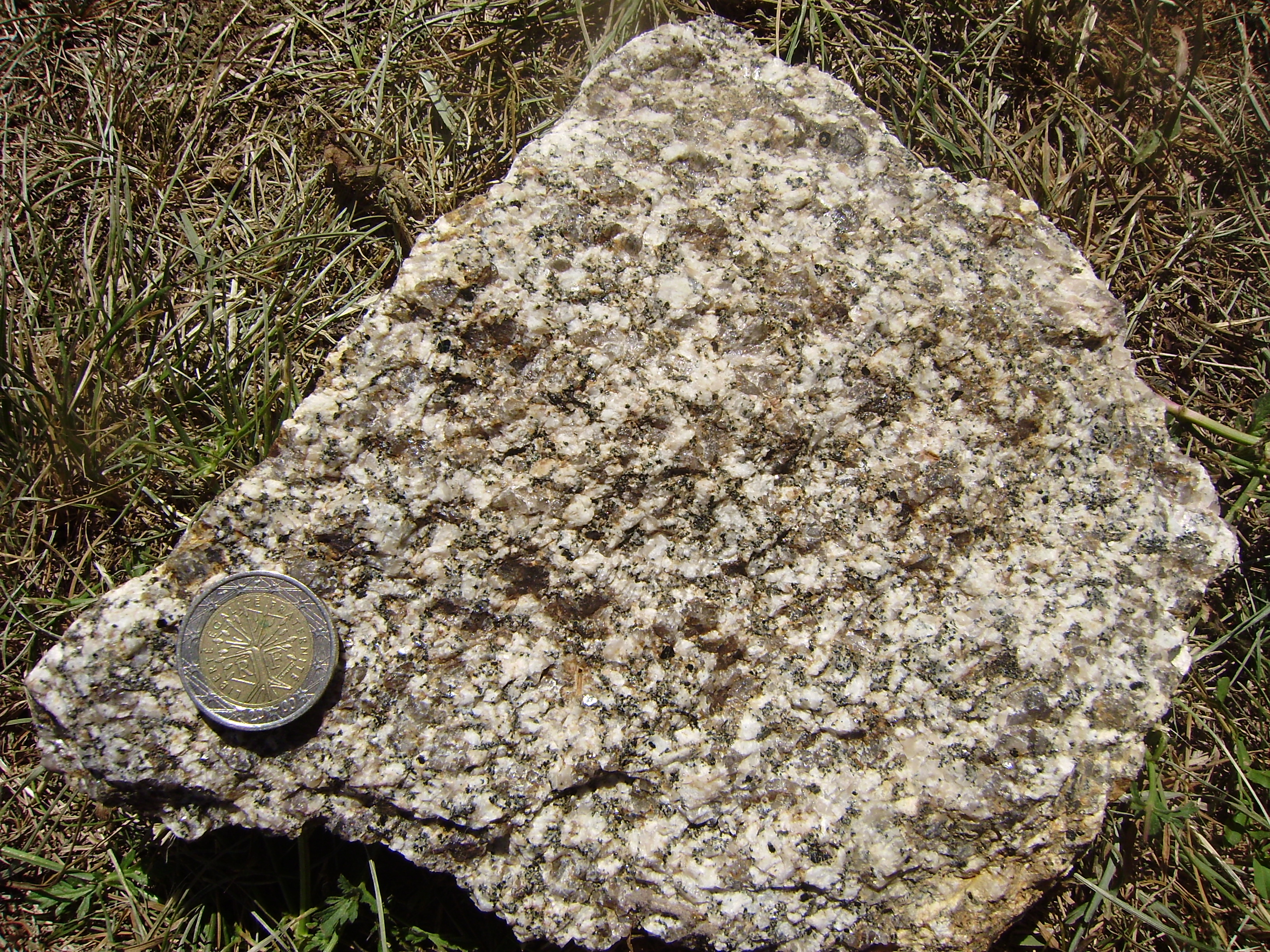 Common facies of the Piégut-Pluviers granodiorite, northwestern Massif Central, France.